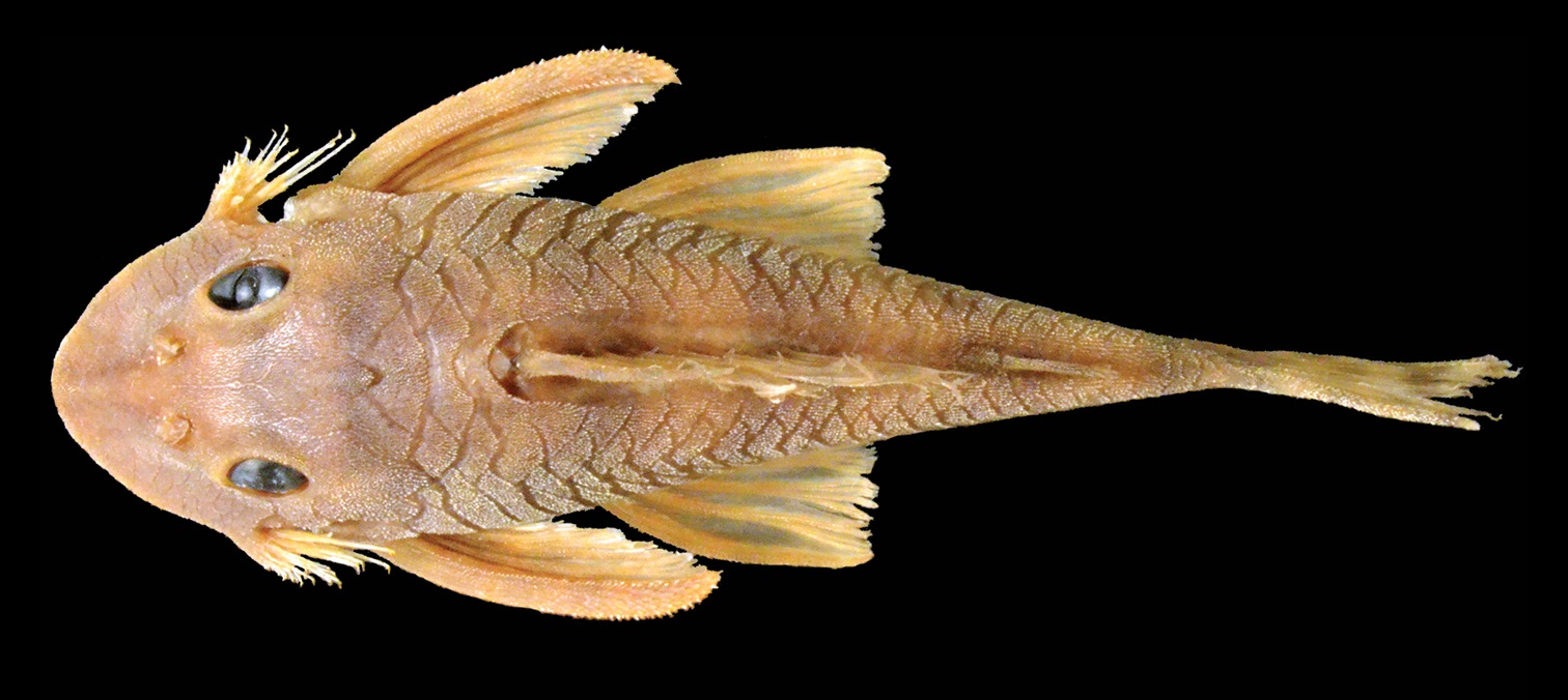 Dorsal view of holotype of Peckoltia greedoi MCP 21972, 77.8 mm SL.